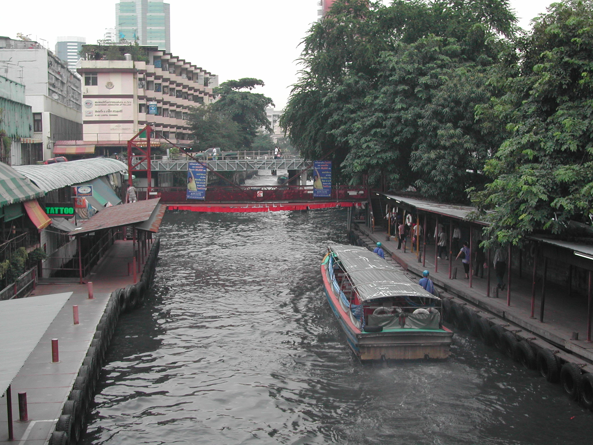 Local transport on Khlong Saen Saeb, Bangkok, Thailand